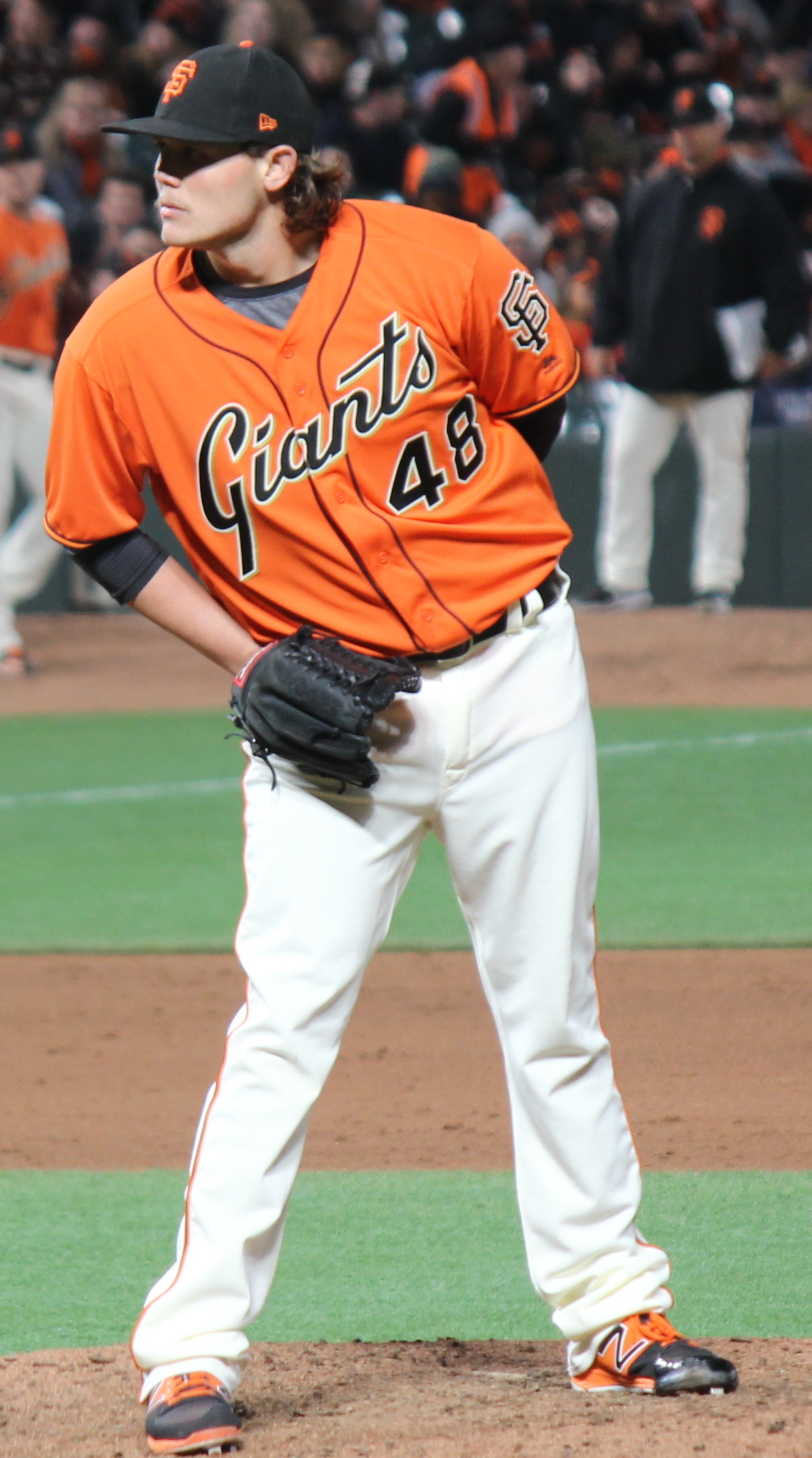 Photo of Steven Okert playing for the San Francisco Giants on May 12, 2017.